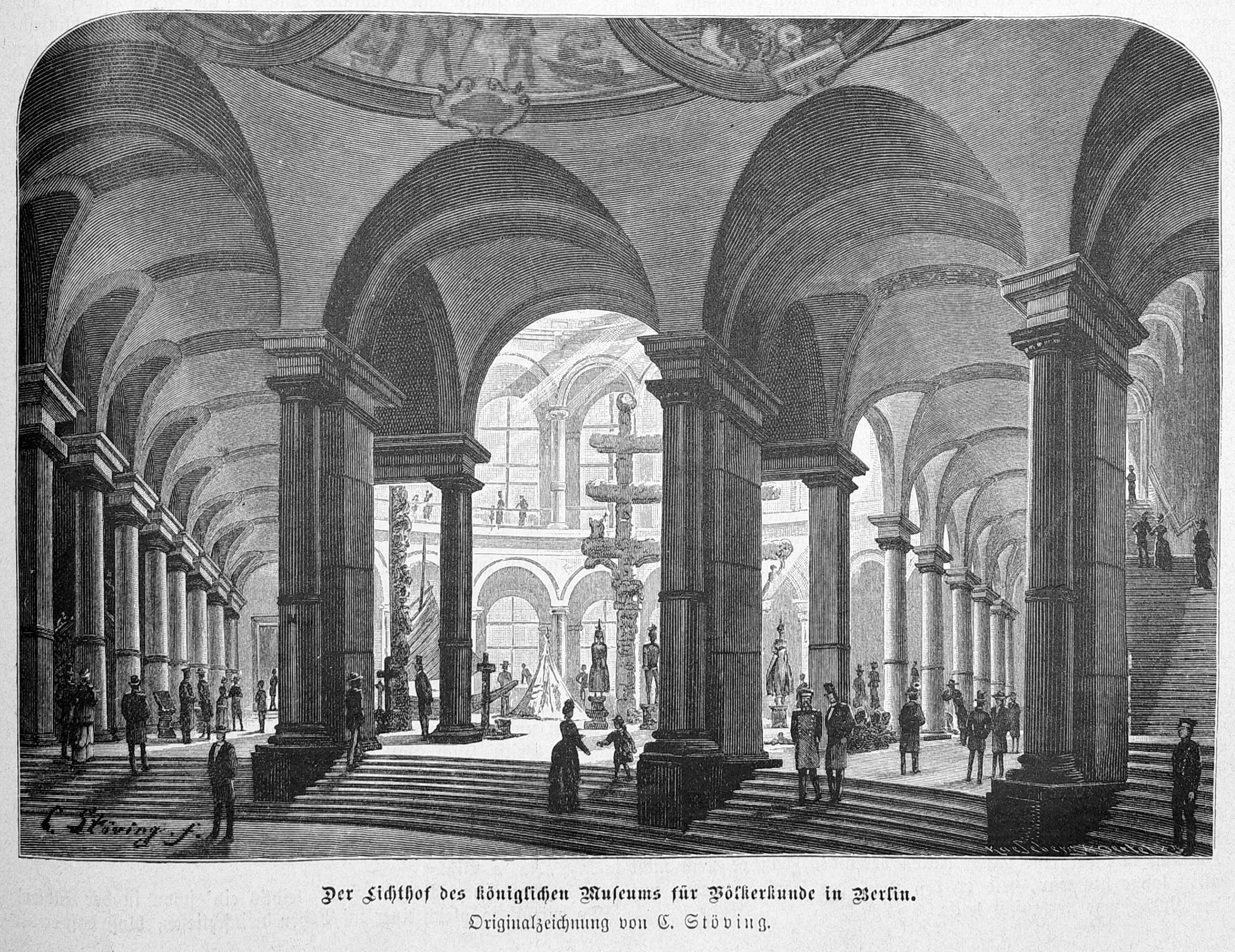 caption: "Der Lichthof des königlichen Museums für Völkerkunde in Berlin. Originalzeichnung von C. Stöving."